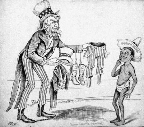 This is a Cartoon Published in 1898. After the Spanish-American War, the United States received Puerto Rico island from Spain.